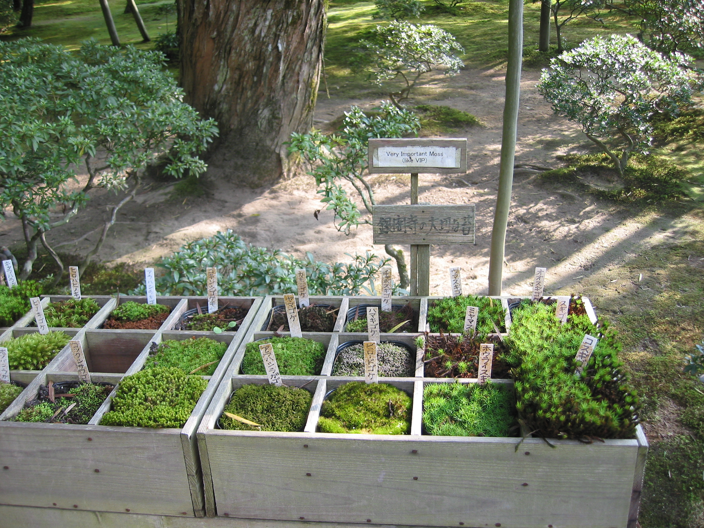 Moss is an important element of Japanese garden design, in combination with trees. Here are the Very Important Mosses..